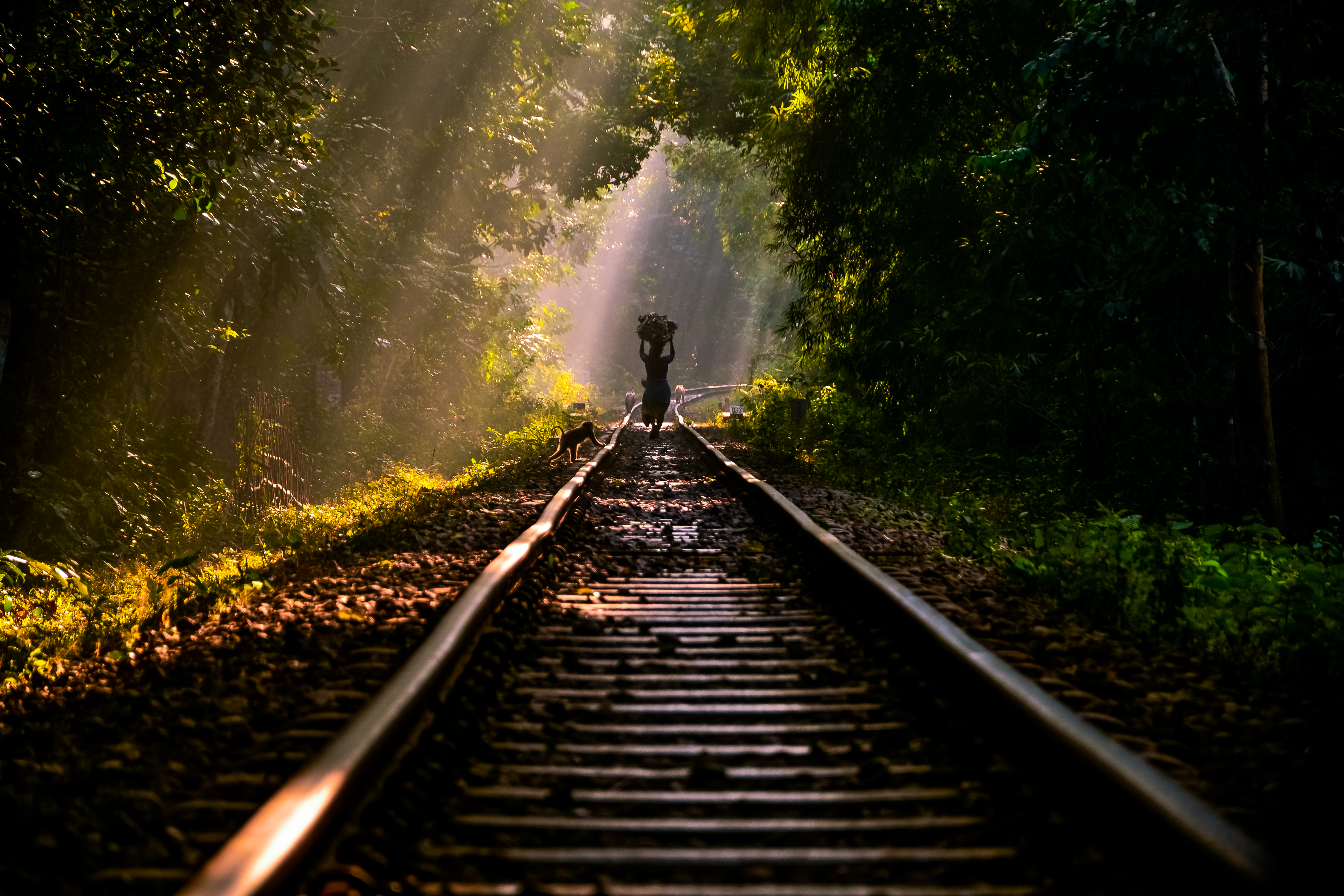 Lawachara National Park, Kamalganj, Maulvi Bazar, Bangladesh.